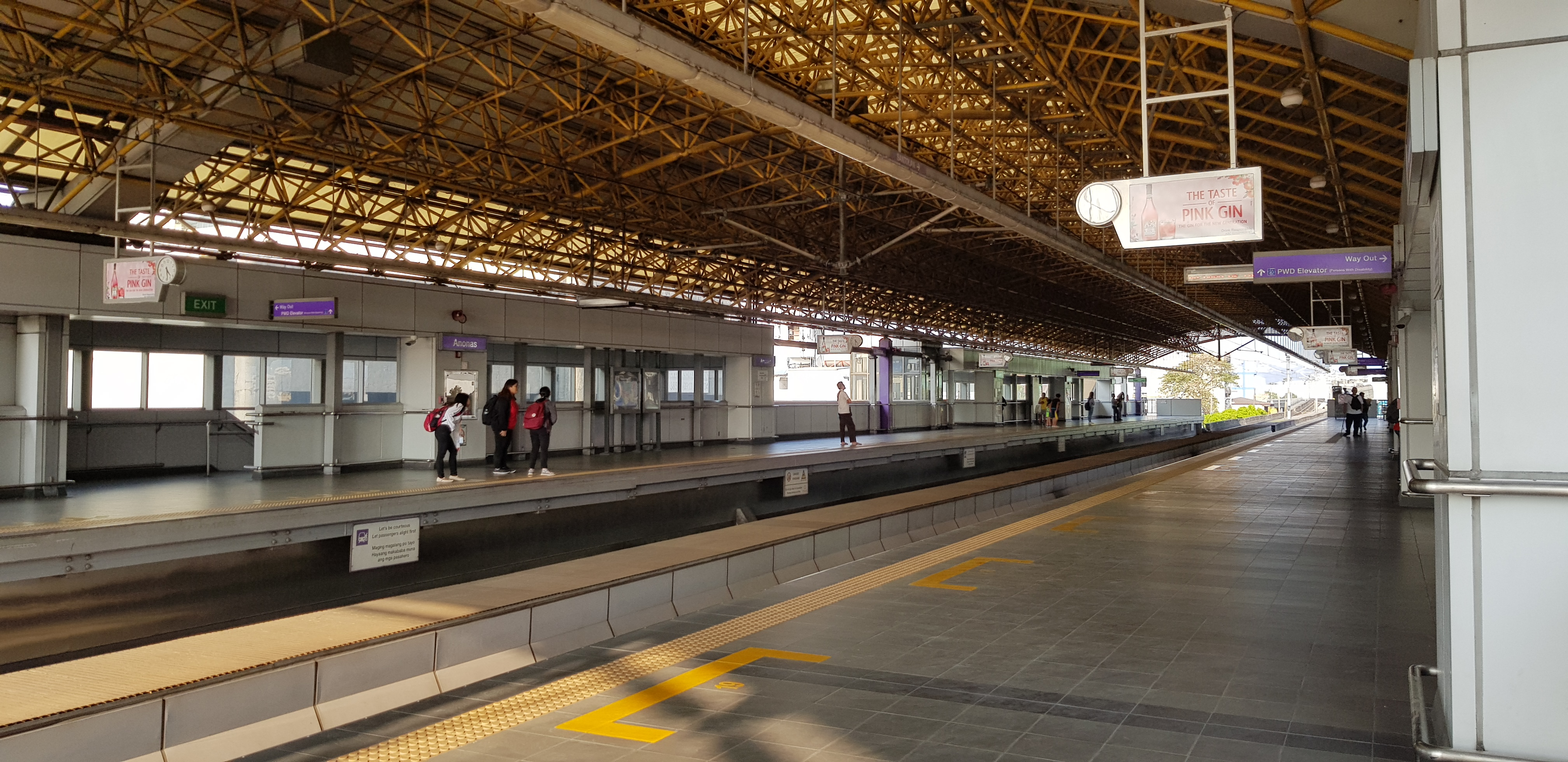 Line 2 Anonas Station Platform